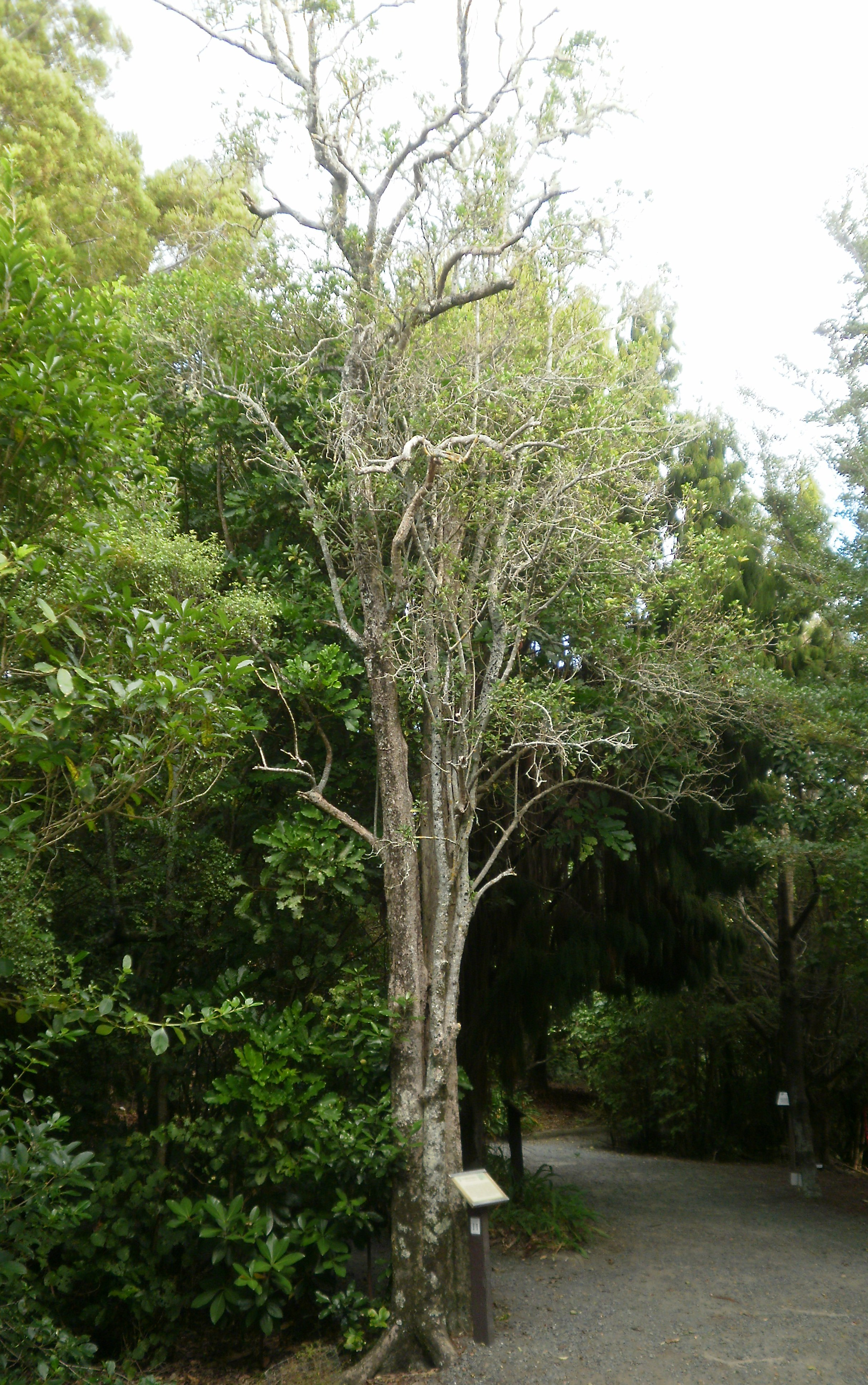 Pennantia corymbosa, kaikōmako, tree at Nga Manu Nature Reserve, Waikanae, New Zealand.